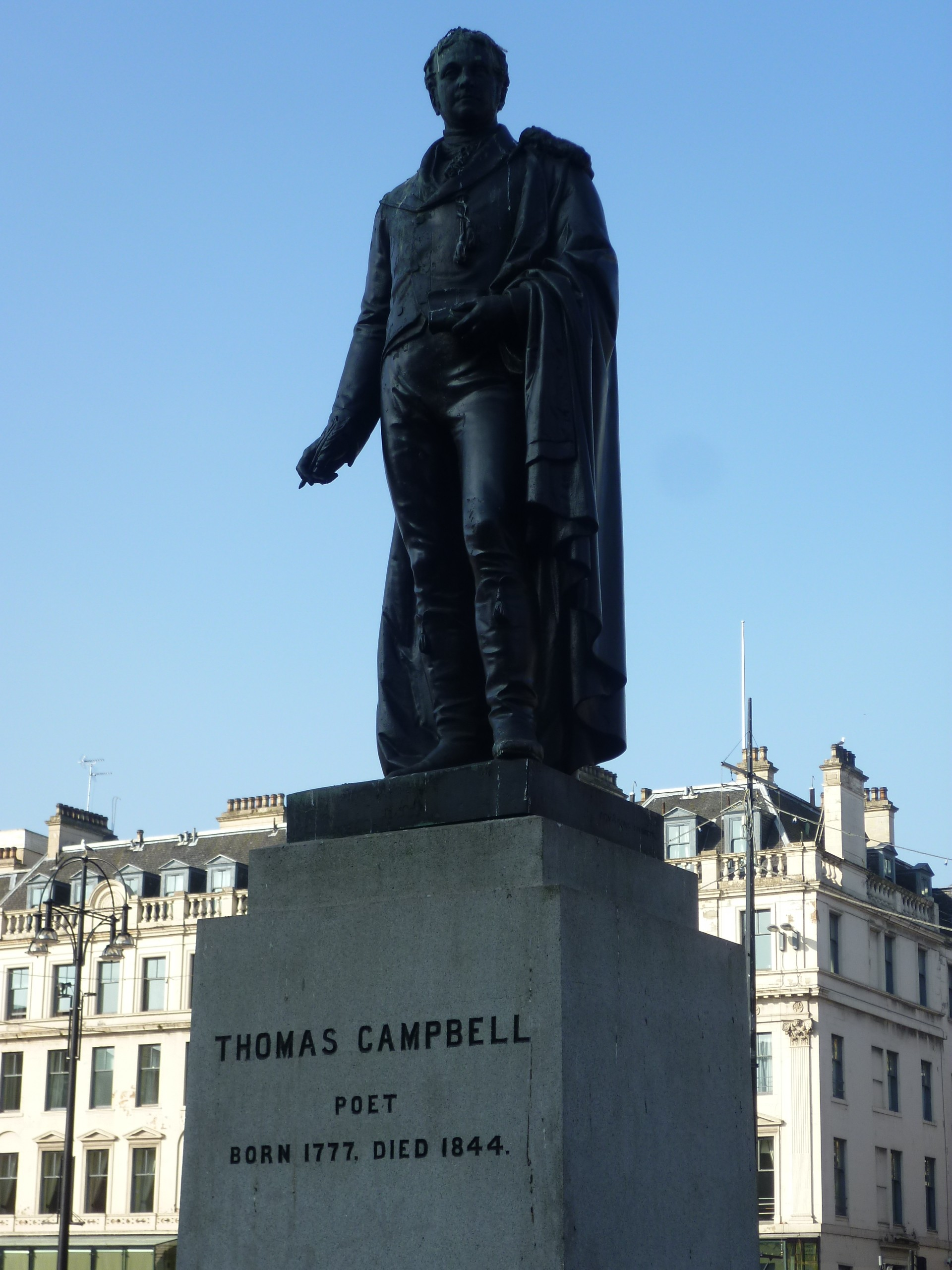 The statue stands in George Square.